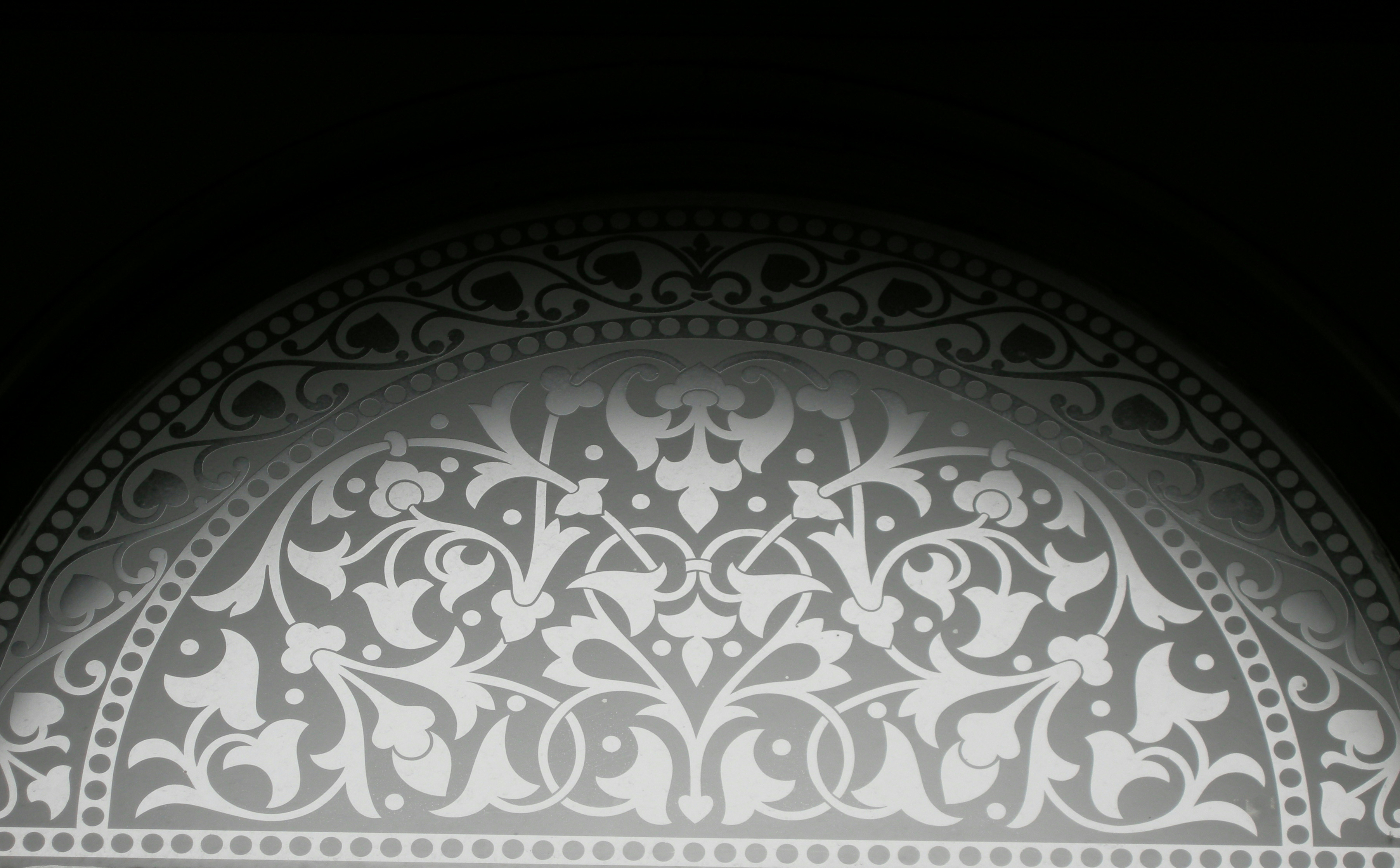 Bankfield Museum, Halifax, West Yorkshire, England. 53.43'.57".N; 1.51'.48".W.